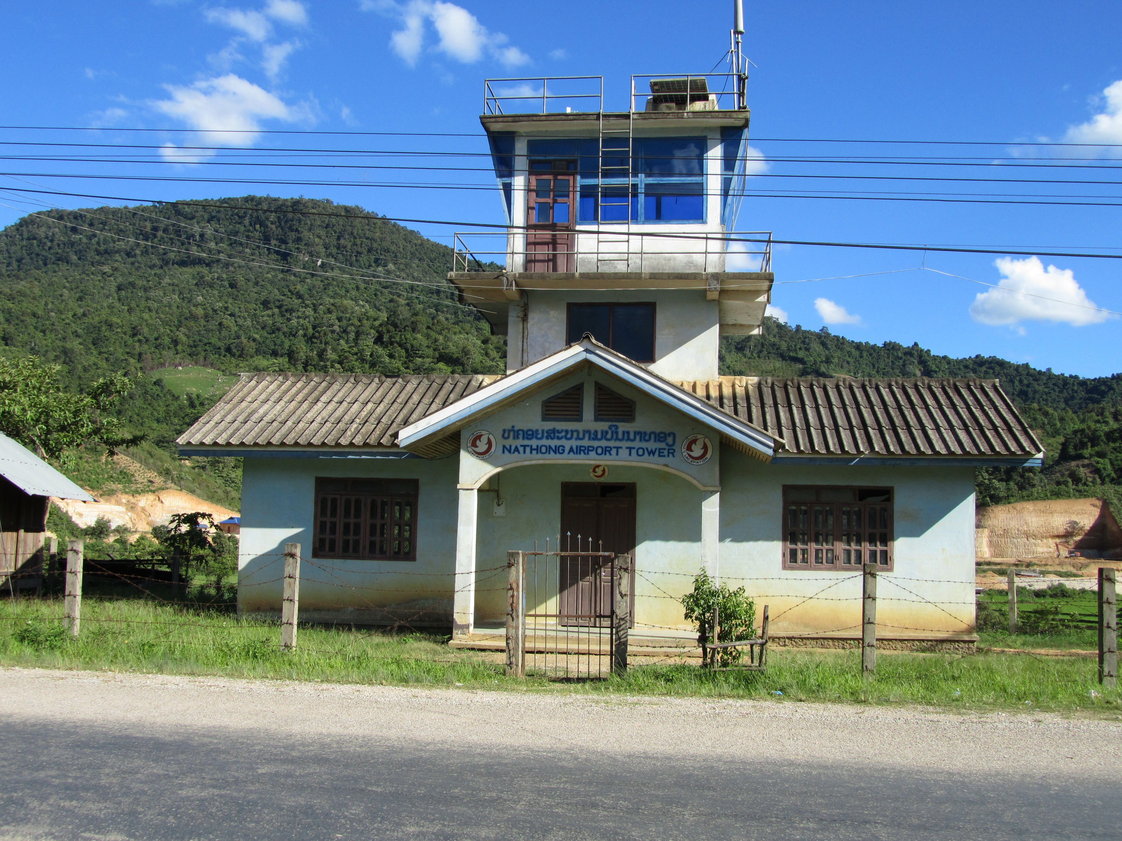 Sam Neua Airport Control Tower